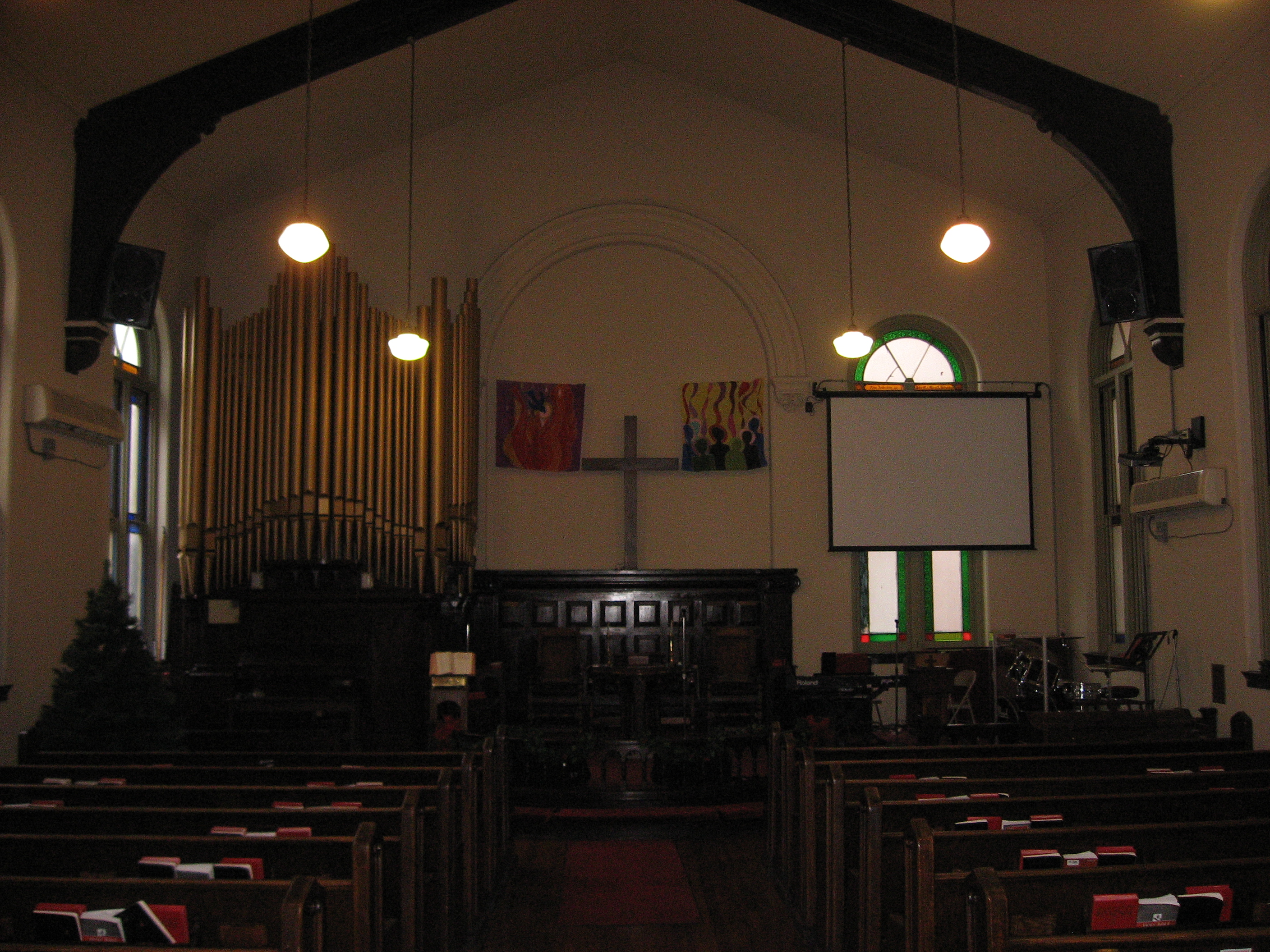 Sanctuary inside the First German Methodist Episcopal Church (now Nast Trinity United Methodist Church), located at 1310 Race Street in the Over-the-Rhine neighborhood of Cincinnati, Ohio, United States. Built in 1881, it is listed on the National Register of Historic Places, and it is part of the Register-listed Over-the-Rhine Historic District.